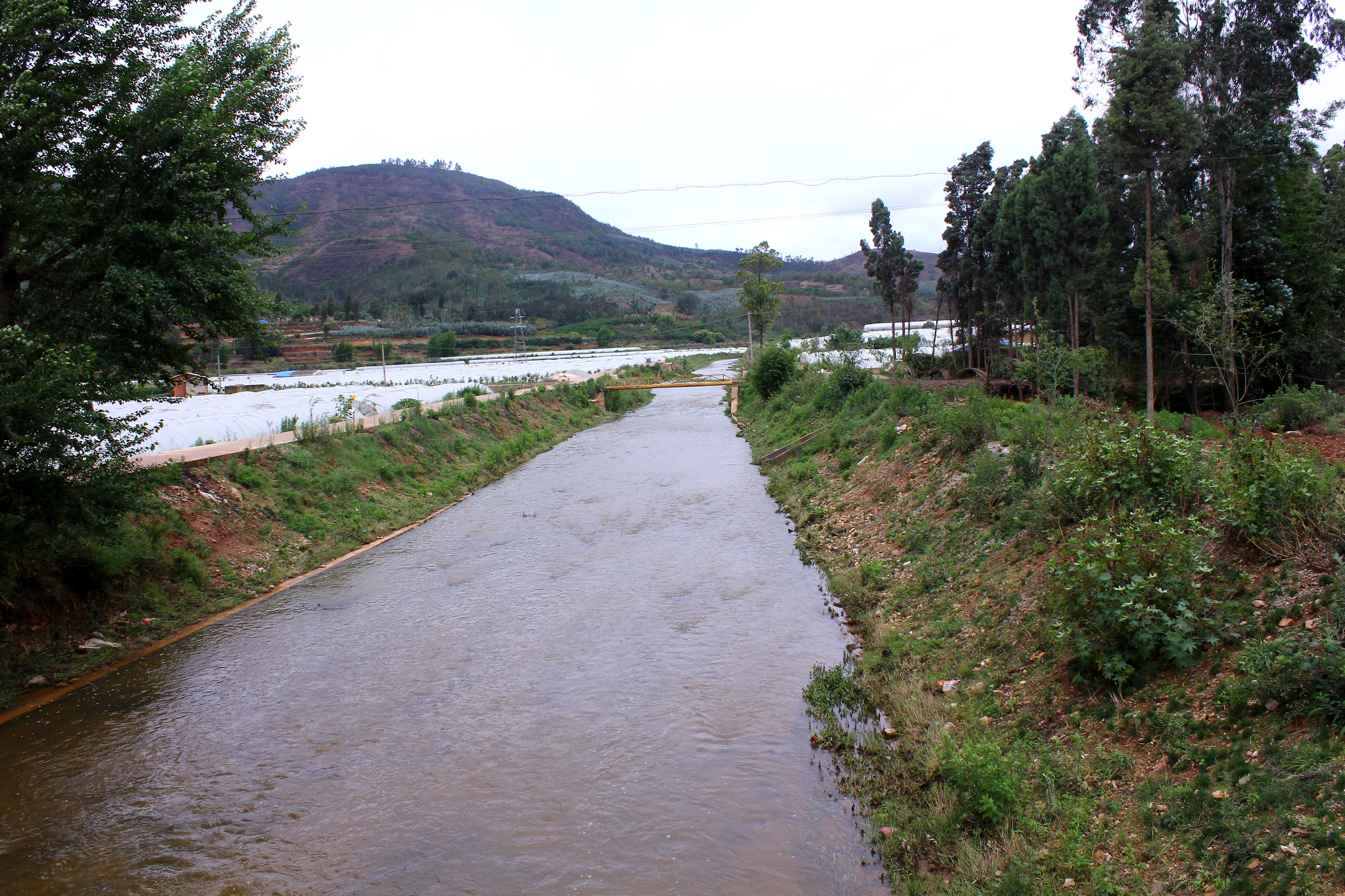 Mingyi River near Diandong Village, Xianjie Subdistrict，Anning City, Yunnan Province, China.